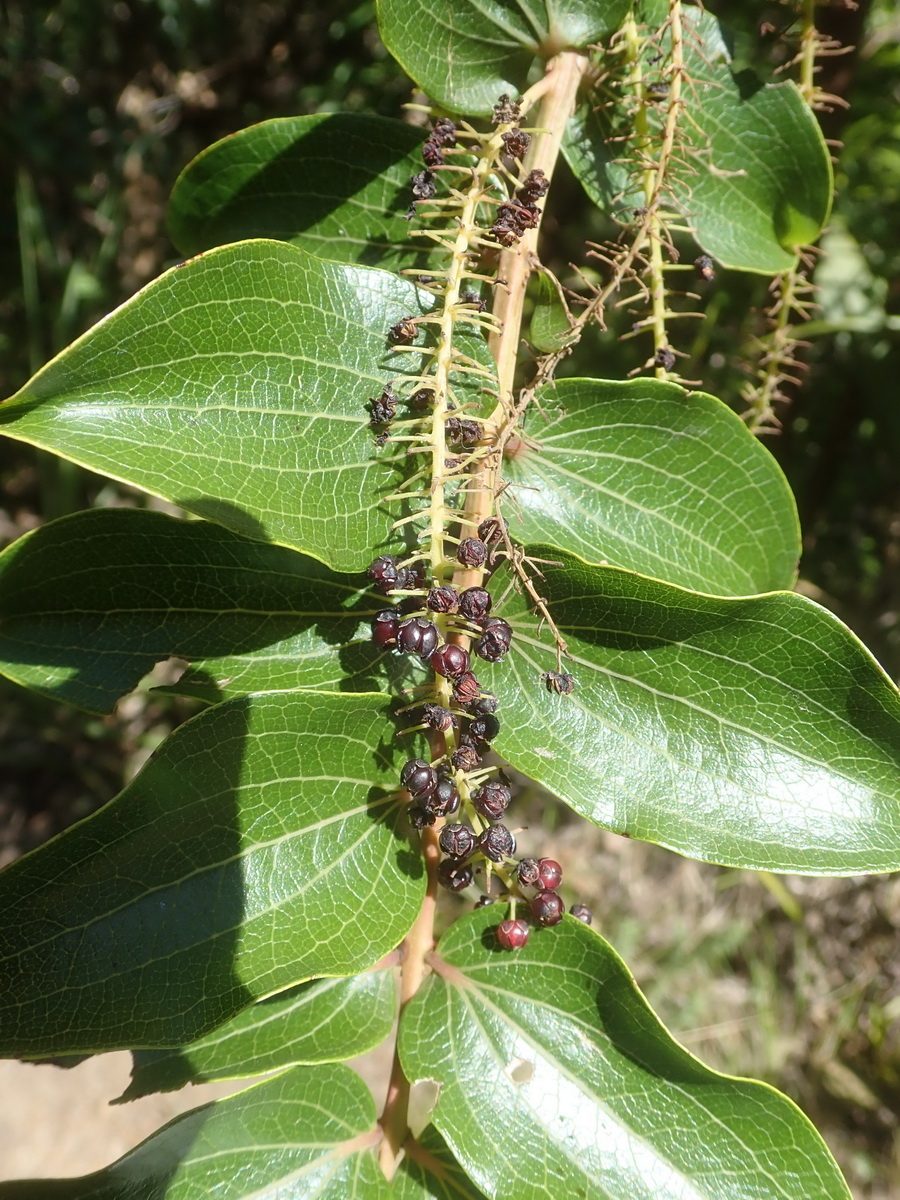 Coriaria arborea with developing berries